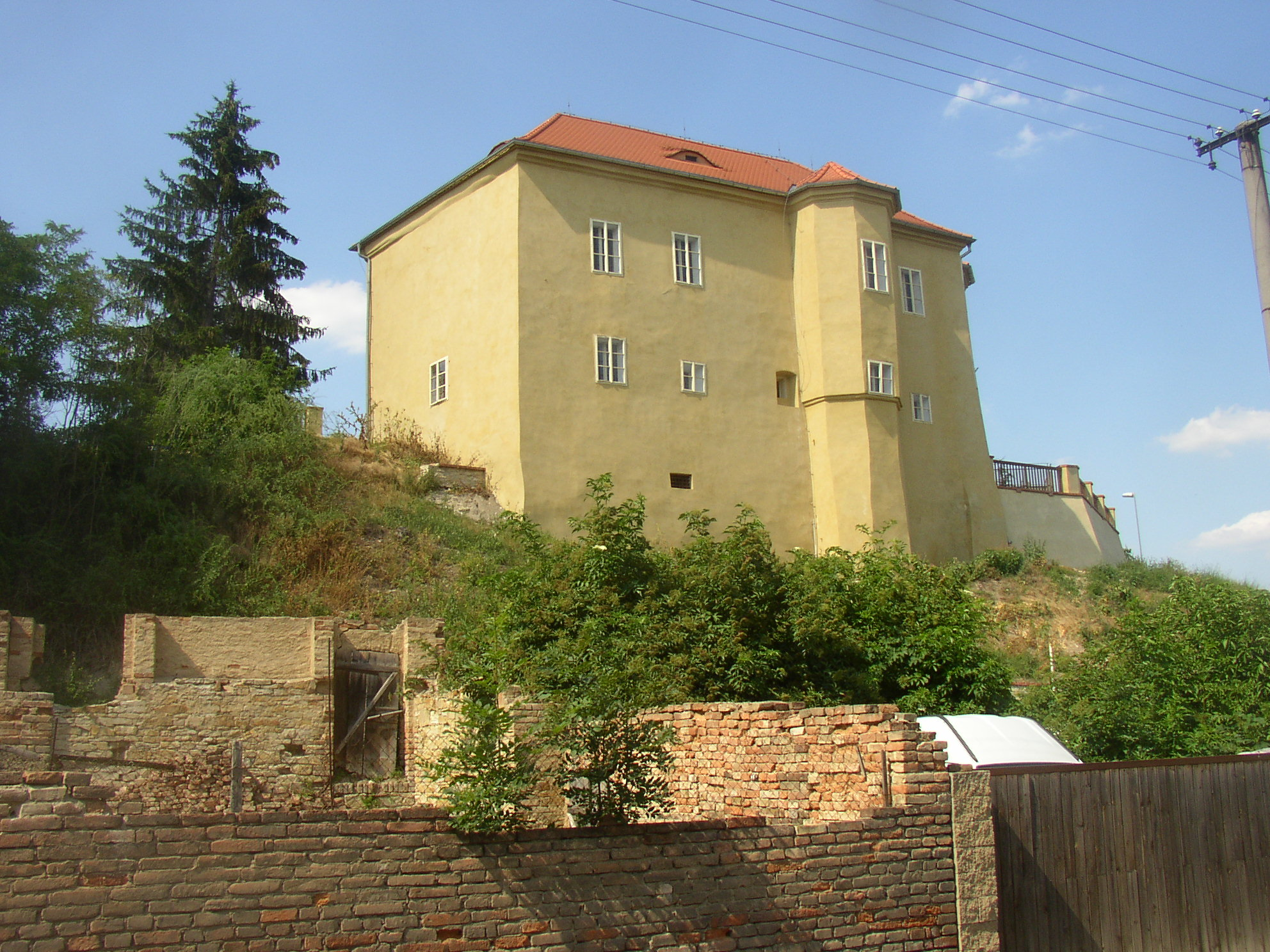 Brozany nad Ohří, Litoměřice District, Czech Republic. Brozany Castle, originally a Gothic fort from early 15th century, rebuilt wizh lavish Renaissance decoration by Zikmund Brozanský of Vřesovice in 1560s and by Jan Zbyněk Zajíc of Hazmburk in 1600s. Set in fire by Saxon army in 1631, after another fire in 1880 lowered by two floors. Nowadays in property of the town, opened for tourists after restoration in 2005.